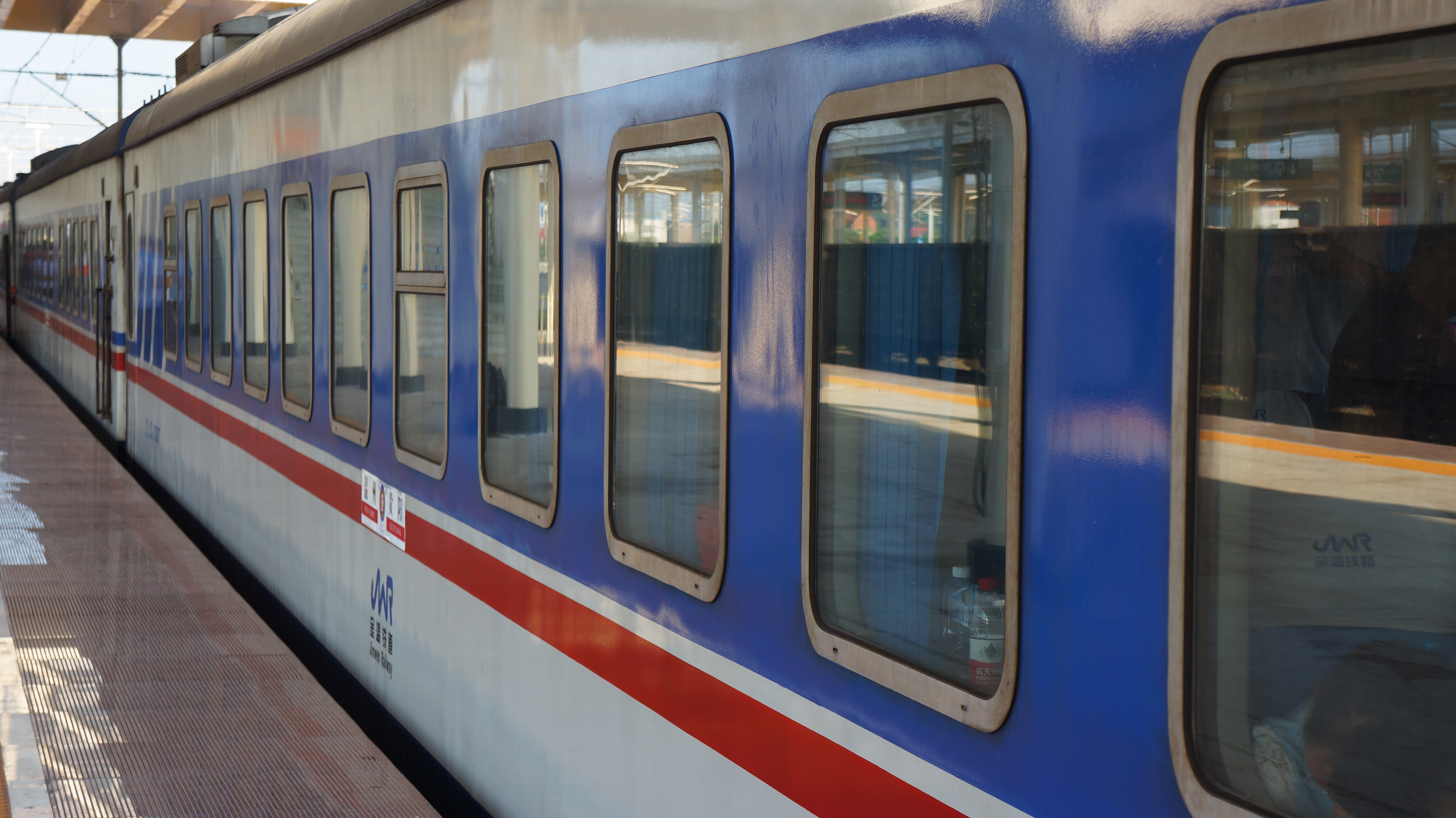 In Quzhou Railway Station,platform 3. When K941(Wenzhou to Guiyang) was stopping at.中文（中国大陆）: 金温铁道担当的K941（温州——贵阳）停靠在衢州站3站台。拍摄于2015年7月27日吴语: 2015年7月27日，温州到贵阳个K941停在勒个衢州站里相